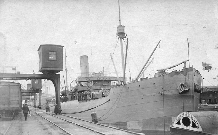 US Navy cargo ship USS Kerowlee in port, possibly at Danzig, Germany.